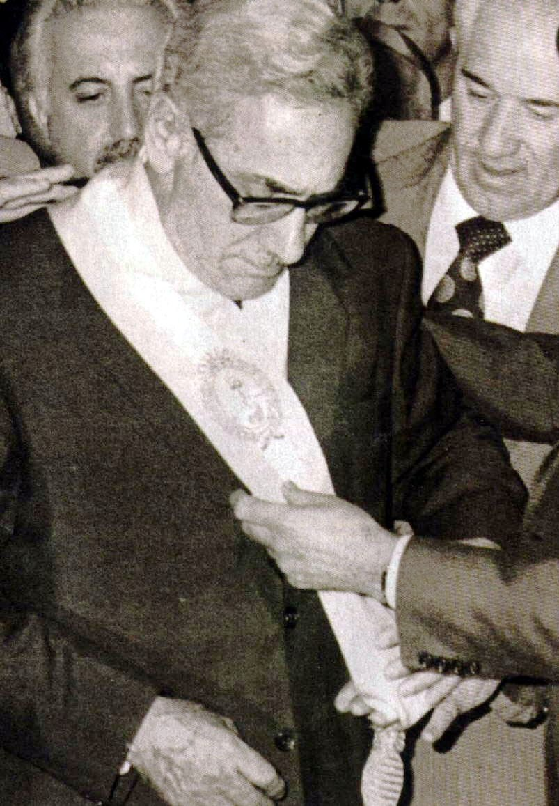 Santiago Llaver taking office as Governor of Mendoza Province, Argentina, on December 10, 1983.